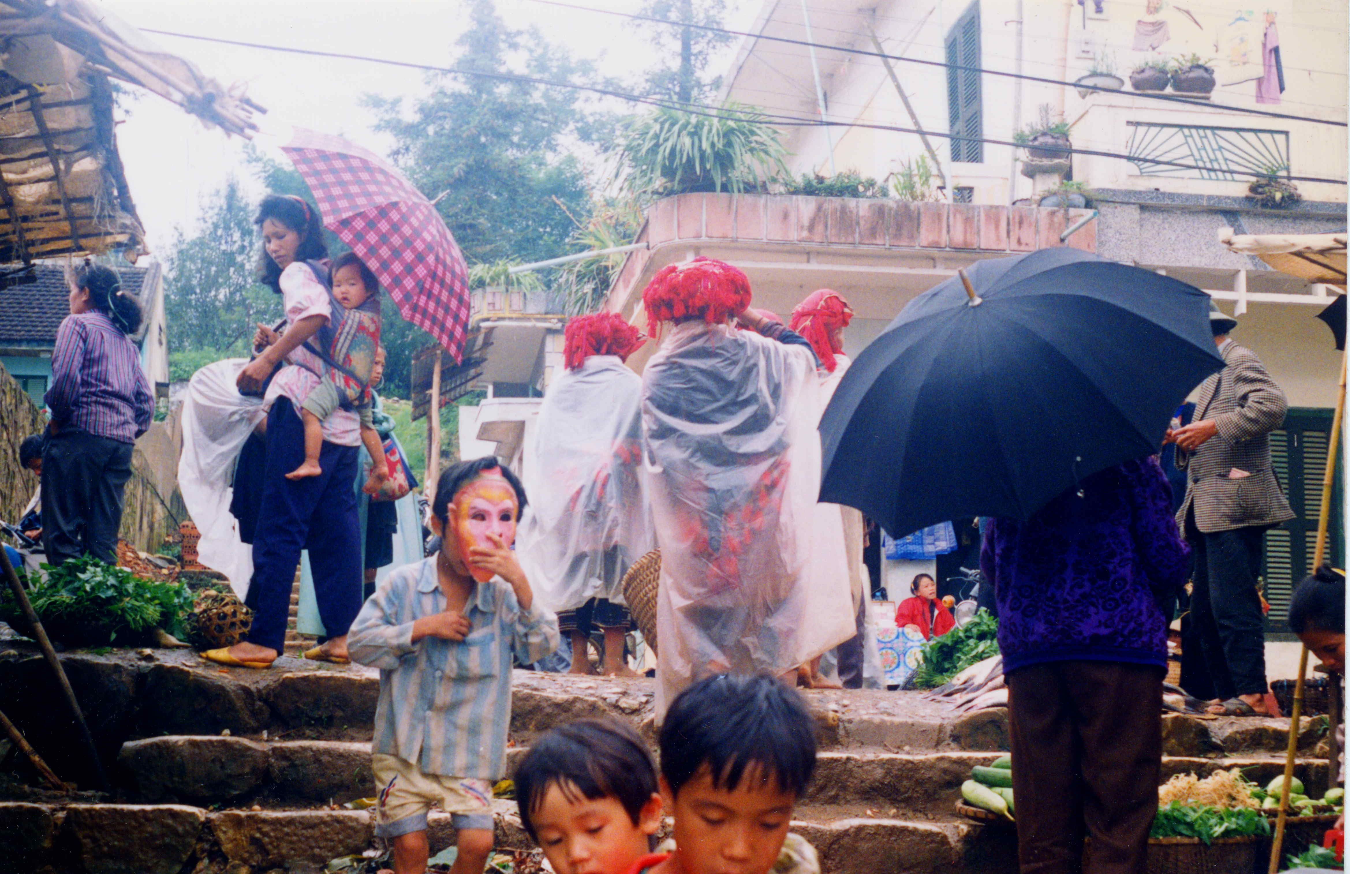 Sa Pa Market (North of Viêt-Nam)